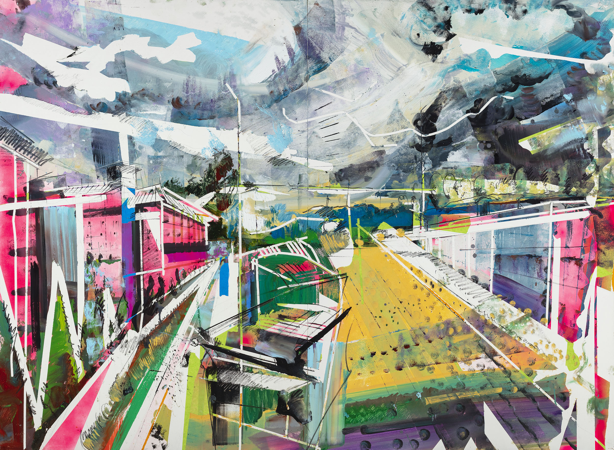 A direct confrontation with contemporary commercial environments. The resulting drawing from the use of masking taped areas not only provides the vast, deep perspective of a shopping mall but also the infinite hard-edged lines inherent in this setting. Fluorescent spray paint juxtaposed with mixed naturalistic color creates the lurid effect of industrial pigments used on commercial building facades.